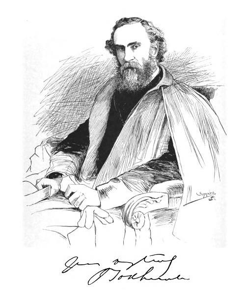 John Todhunter (December 30, 1839 - October 25, 1916) was an Irish poet and playwright who wrote seven volumes of poetry, and several plays.